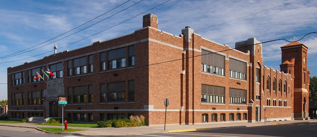 Cathedral High School, 312 7th Avenue North, St Cloud, Minnesota, USA. Viewed from the south.